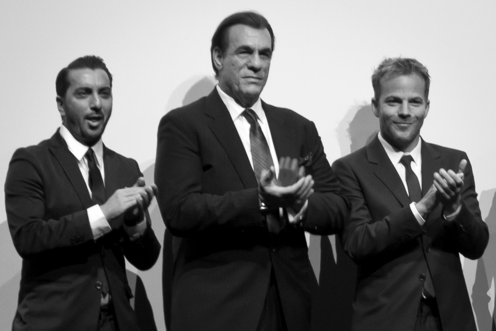 At the premiere of "The Iceman", directed by Ariel Vromen, during the Toronto International Film Festival, 2012.